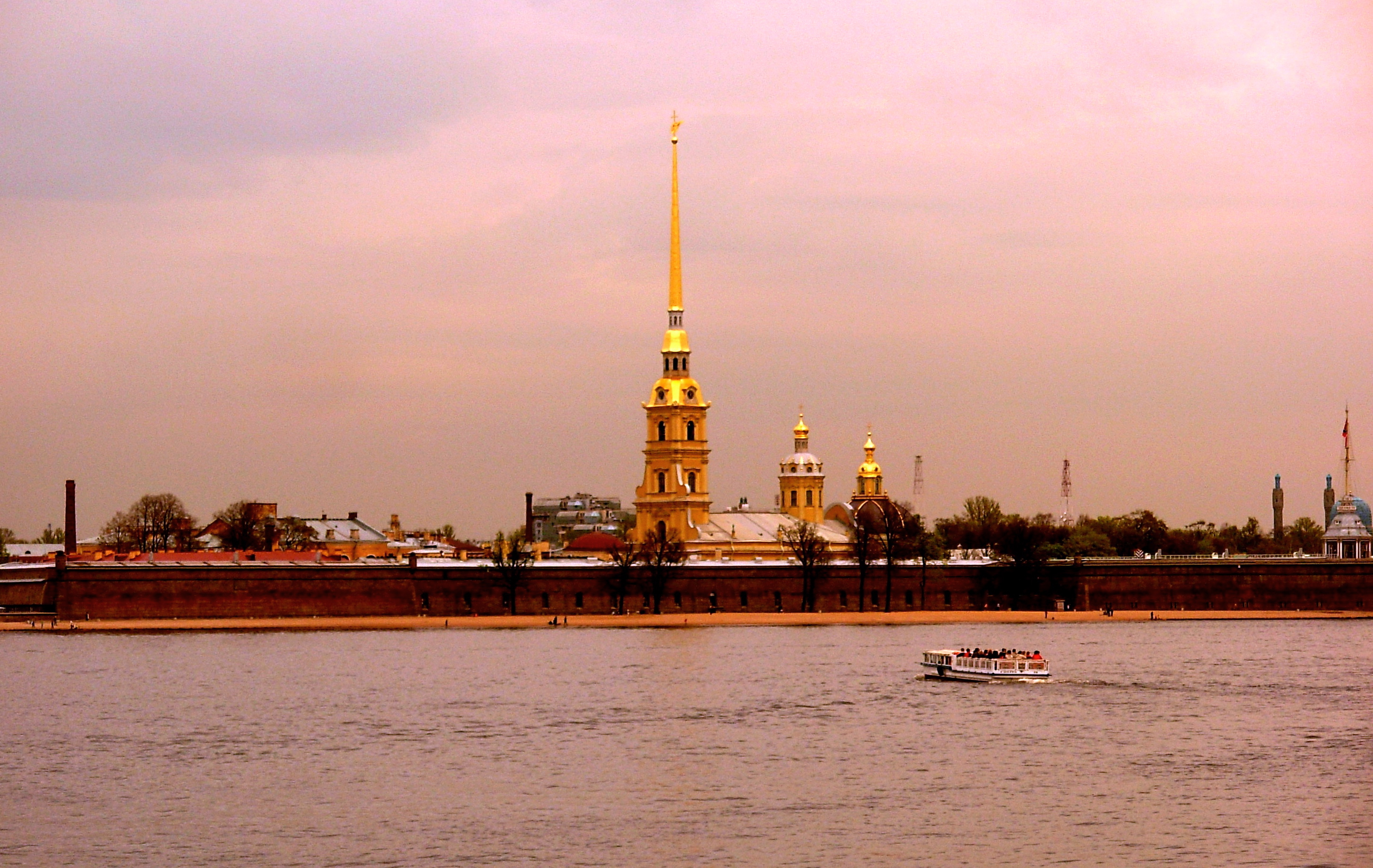 Peter & Paul Fortress